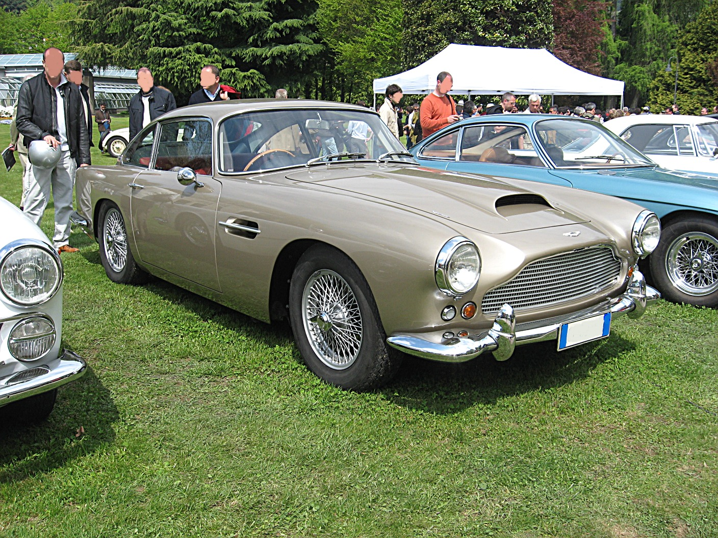 Subject:Aston Martin DB4 Date:April 27th, 2008 Event:Concorso d’Eleganza ”Villa d’Este” 2008 Place/Country: Cernobbio (CO), Italy I release all rights in the public domain.